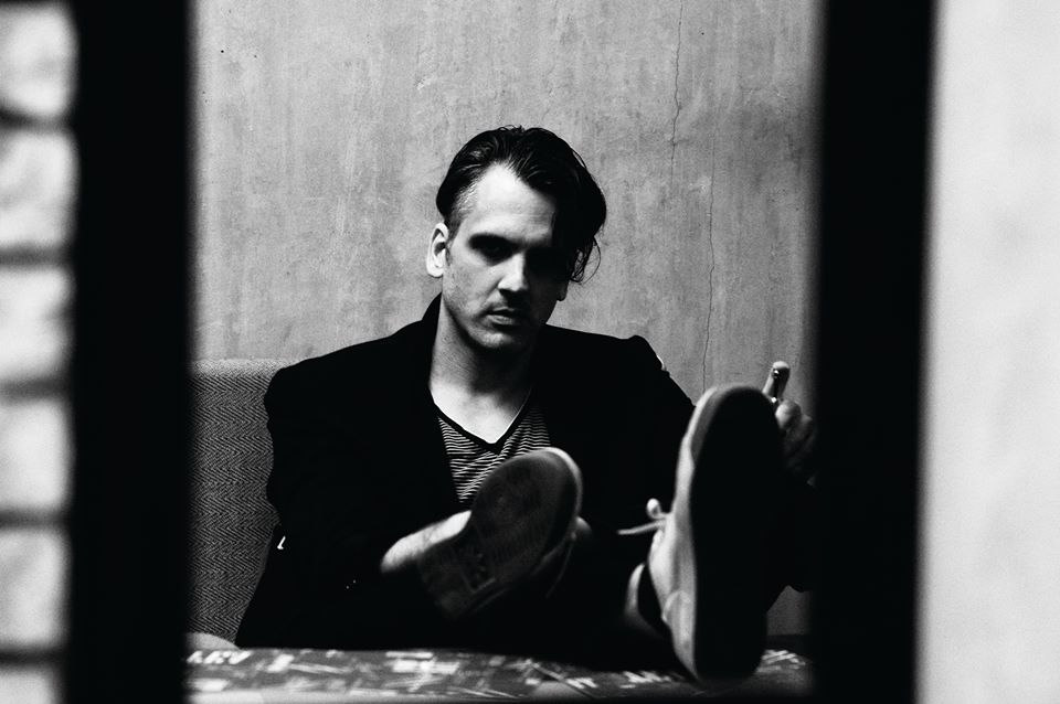 Christopher Tignor, backstage at the Royal District Theater in Tbilisi, Georgia, 2017